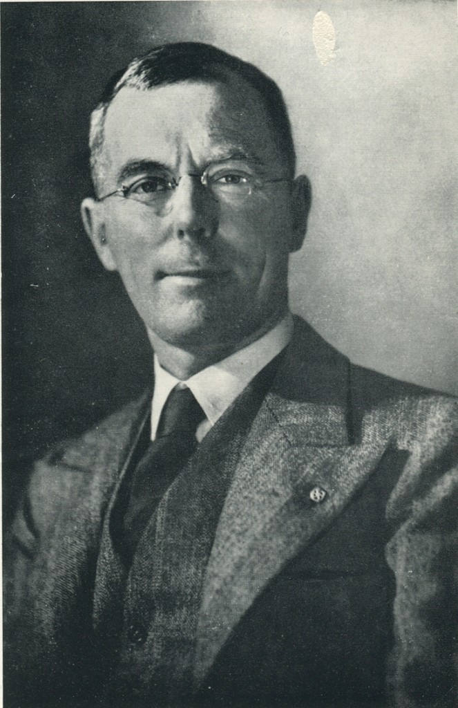 Albert Henry Spencer (1886–1971), an Australian bookseller who dealt in antiquarian, secondhand and fine new books. He founded the Hill of Content bookshop in Melbourne.